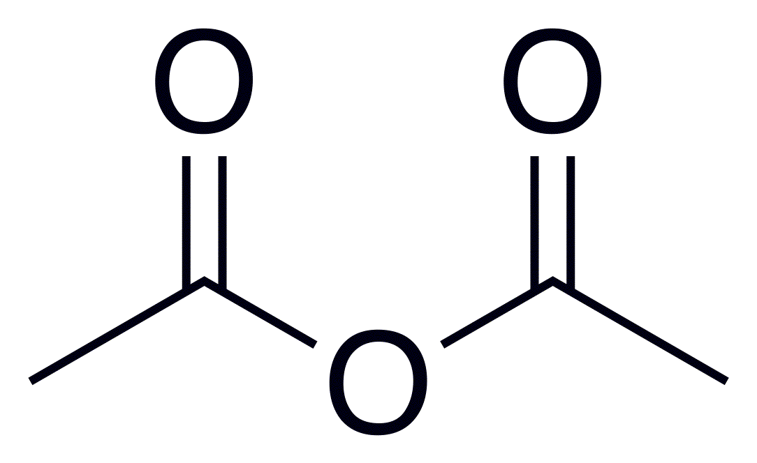 Skeletal structure of acetic anhydride